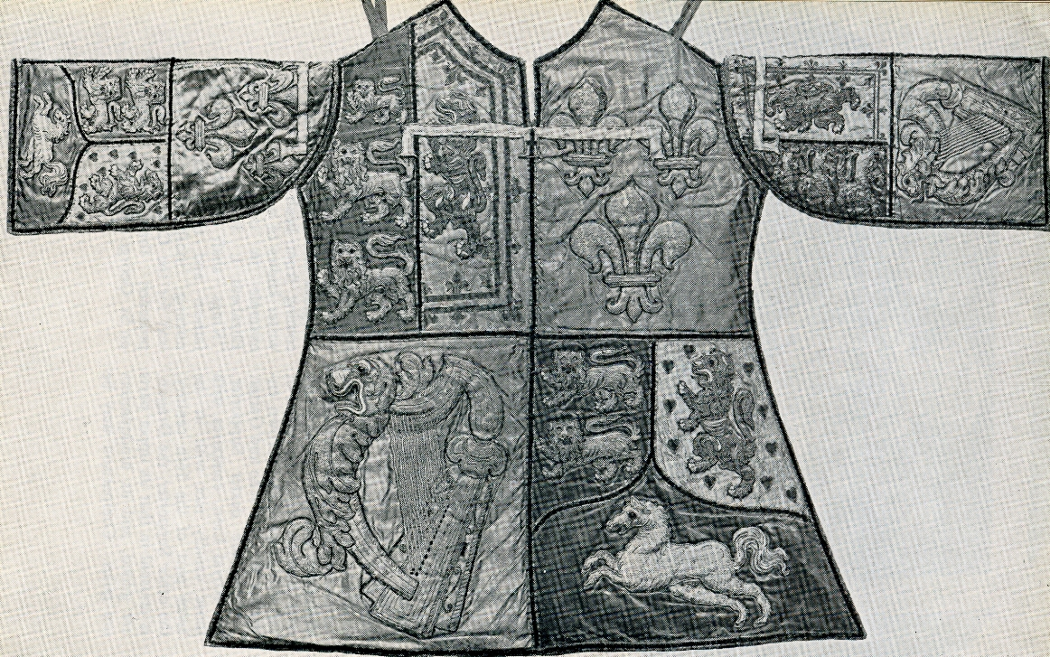 The tabard of Blanc Coursier Herald, John Anstis. This tabard was created for his ceremonial installation on 9 October 1727 and is currently at the Victoria and Albert Museum.